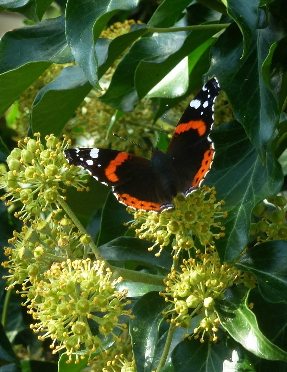 For insects such as the admiral, the ivy flower in autumn is an important food source in a season in which there are fewer and fewer nectar donating flowers.